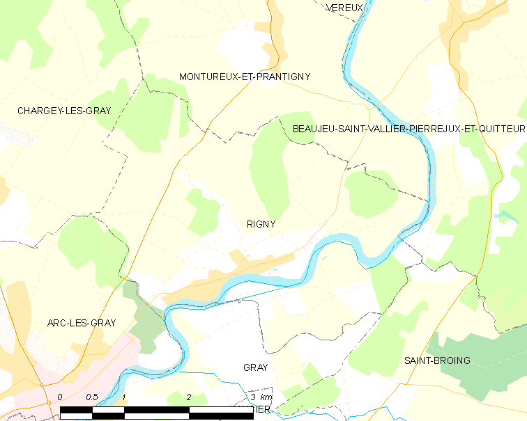 Map of French municipality